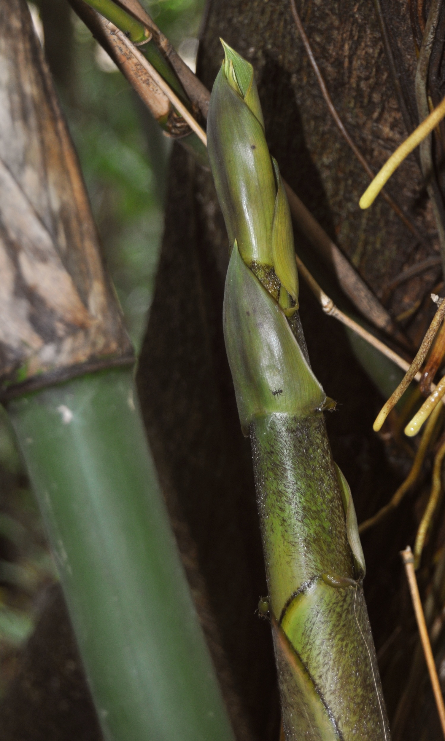 Common bamboo, Bambusa vulgaris; young shoot. From Bogor, West Java, Indonesia.